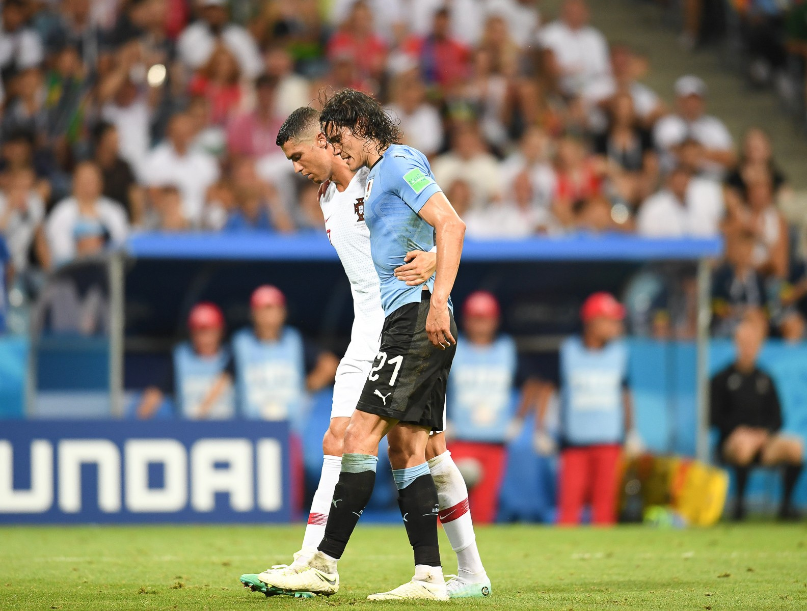 2018 FIFA World Cup Match 49, Uruguay v Portugal